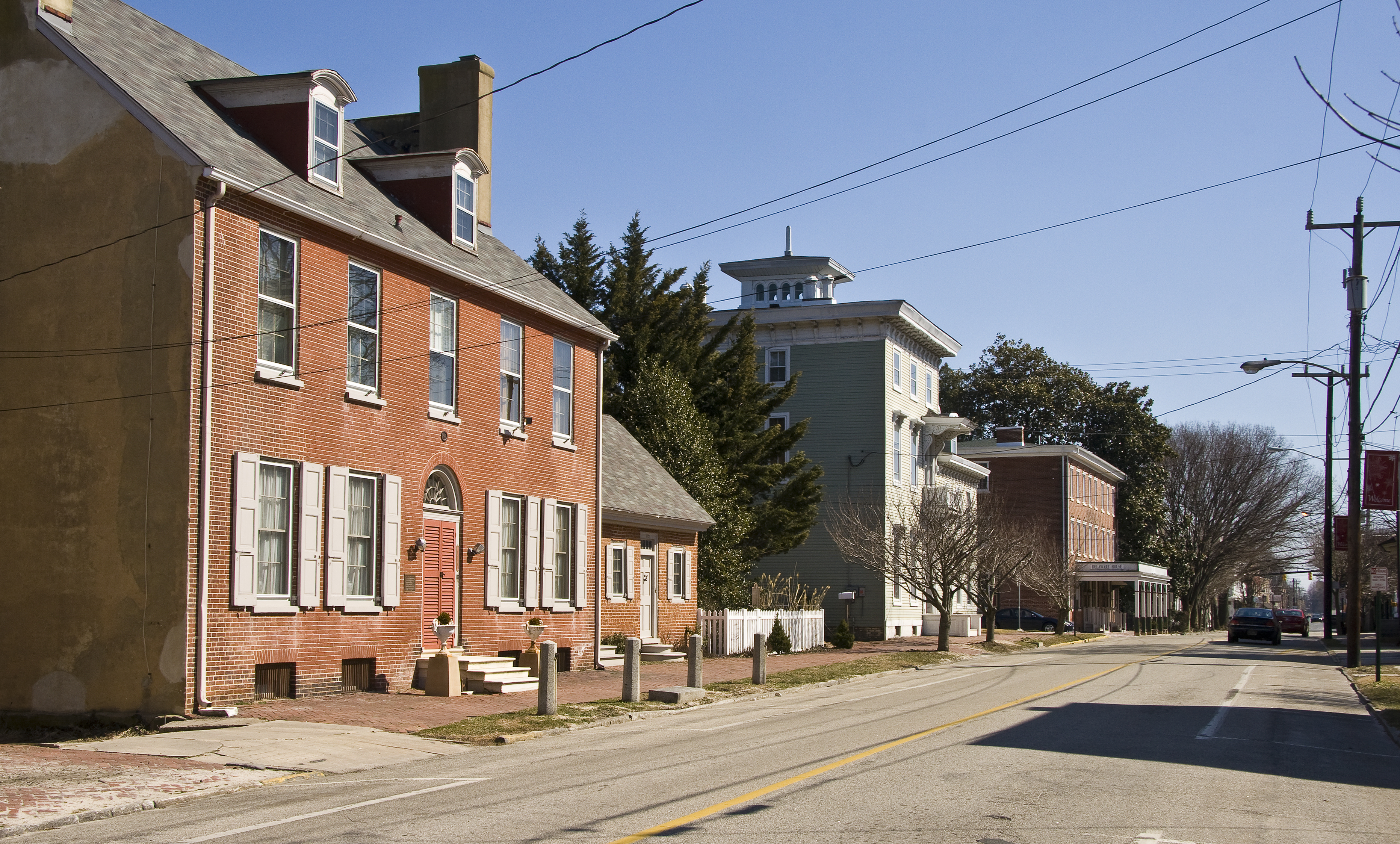 Downtown Smyrna, Delaware, USA